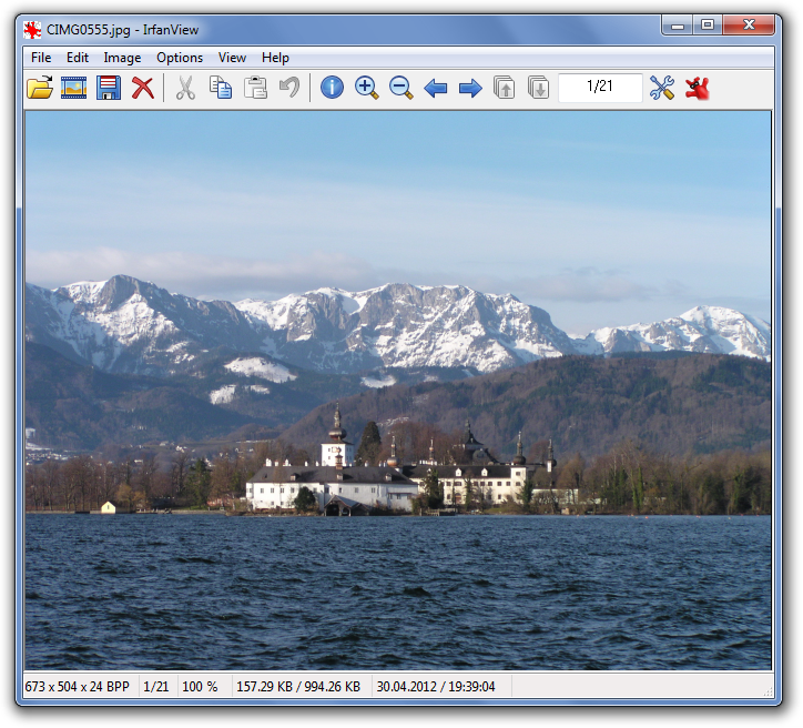 The screenshot shows the well-known freeware image-viewer IrfanView, version 4.33. (IrfanView)